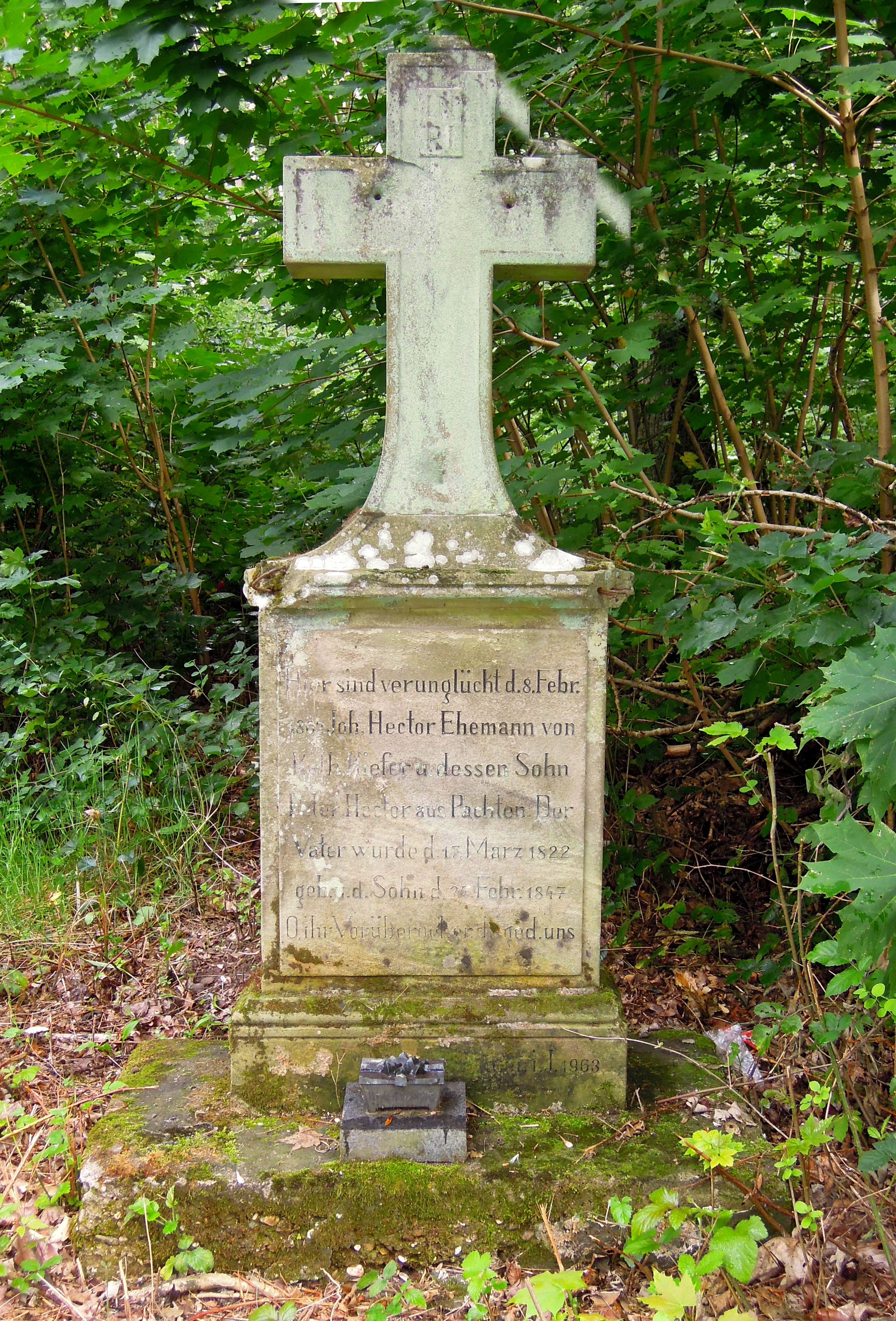 Roadside memorial, cross placed on the right side of the road from Dillingen to Beckingen. The text says: "Here on 8 February 1862, Johann Hector, husband of Käthe Kiefer, and his son, Peter Hector from Pachten, were fatally injured in an accident. The father was born on 17 March 1822, and the son on 24 February 1847. O remember us, ye who pass by" The base says: "renewed in the year 1963." The cross of Entinger; father and son were walking downhill on this road, when they were run over by a cart loaded with wood.